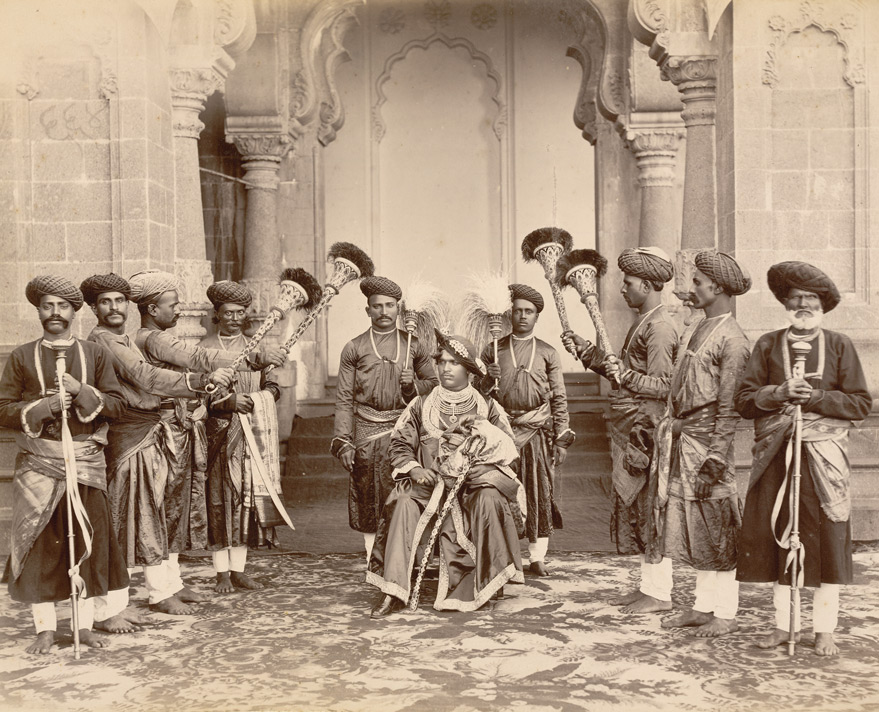 Seated portrait of Shahaji Chhatrapati, Maharaja of Kolhapur with attendants